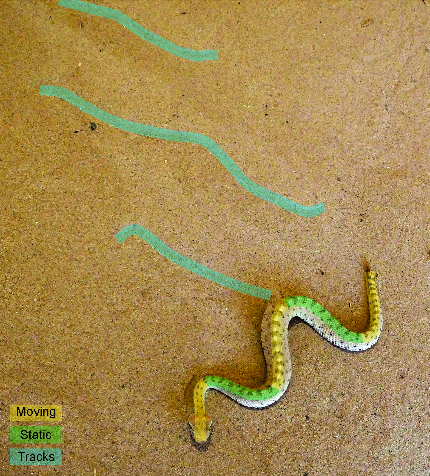 A neonate Colorado desert sidewinder (Crotalus cerastes laterorepens) sidewinds across sand. Taken at Zoo Atlanta. Green regions are static contact with the sand, yellow regions are lifted above the sand and moving, blue denotes tracks. Scale marks are visible in the tracks, showing ground contact to be static.